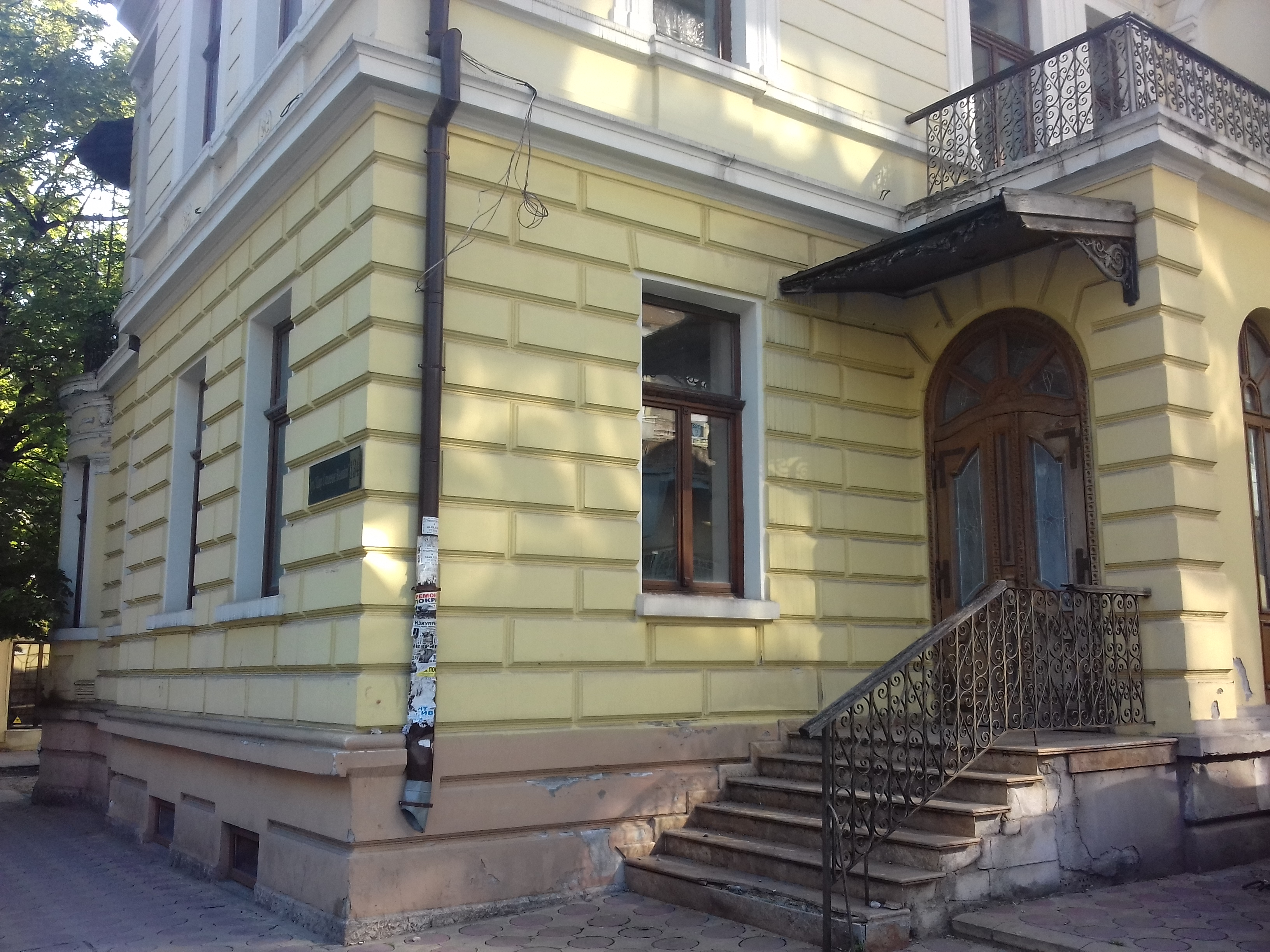 Kozhuharov's House in Stara Zagora, Bulgaria